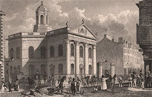 Unitarian Chapel, Paradise Street, Liverpool, engraving from Lancashire Illustrated. The building dated from the 1790s, and was closed in 1849, replaced by the Hope Street Chapel.